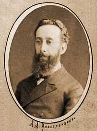 Alexander Alexandrovitch Inostranzeff (1843–1919), géologue et paléontologue russe